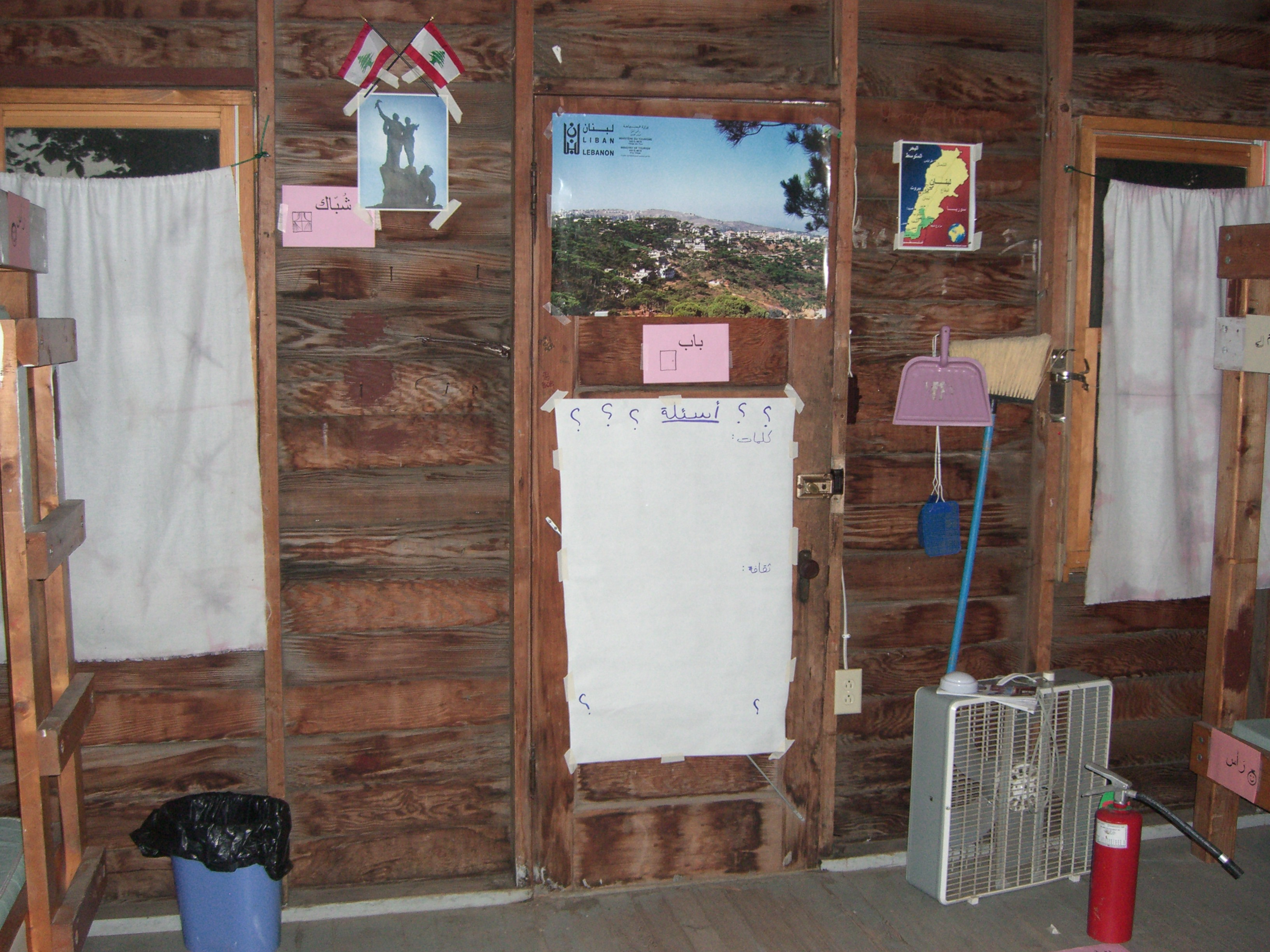 Indoor decorations of cabin "Beirut" at Concordia Language Village's Arabic Al-Waha leased site near Vergas, Minnesota, USA.